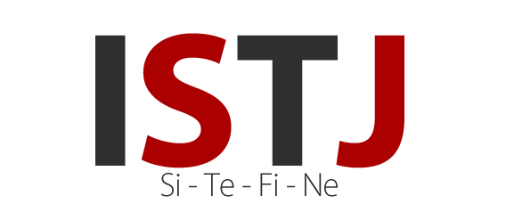 Logo pour ISTJ avec fonctions cognitives.